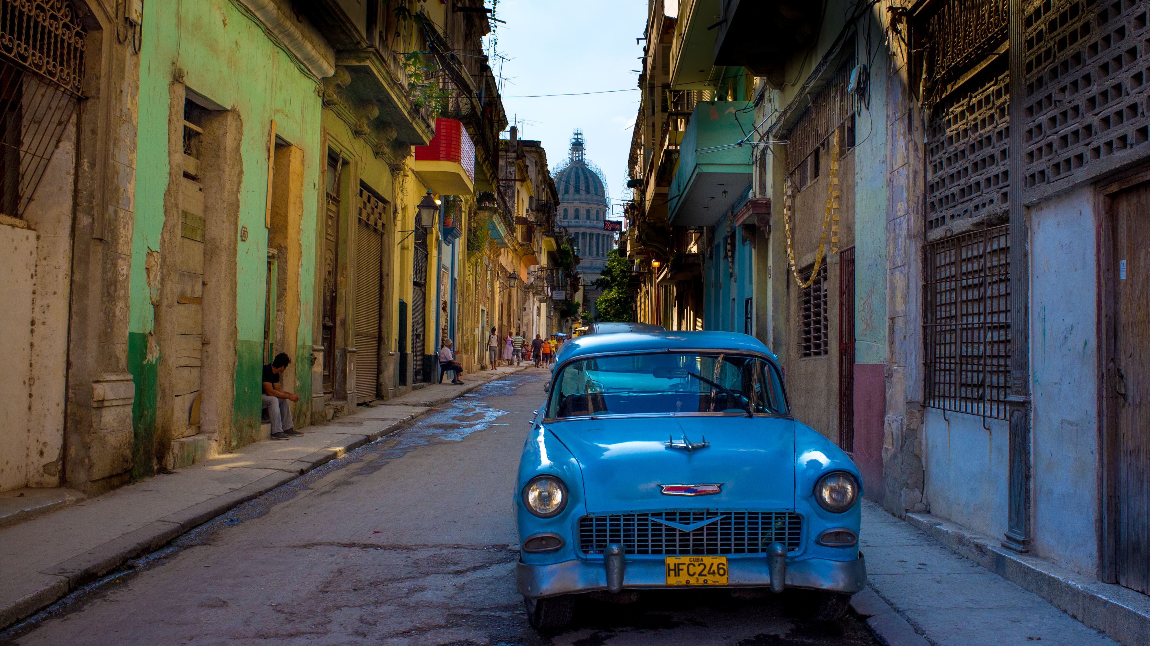 Old American car in Havanna with the Capitol in the Background